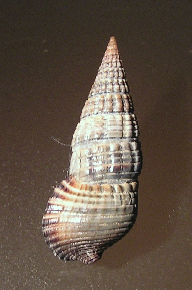 Terebralia semistriata (Mörch, 1852) , a sea snail from the family Potamididae; South China Sea